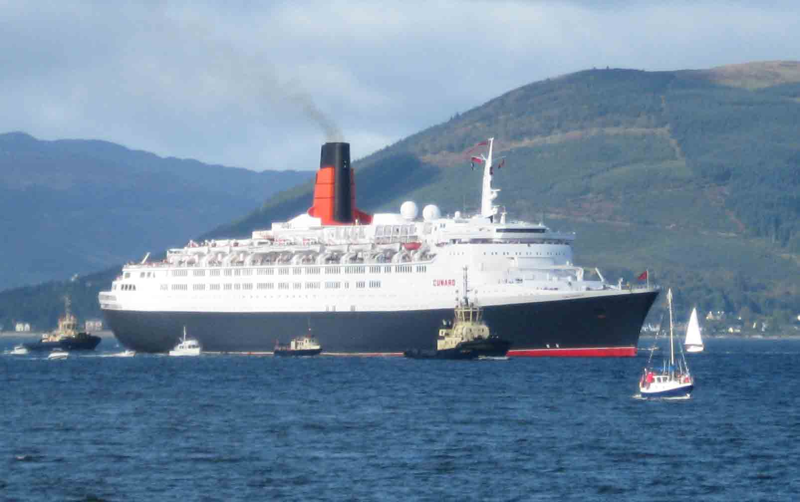 RMS Queen Elizabeth 2 on her last visit to the Clyde where she was built.